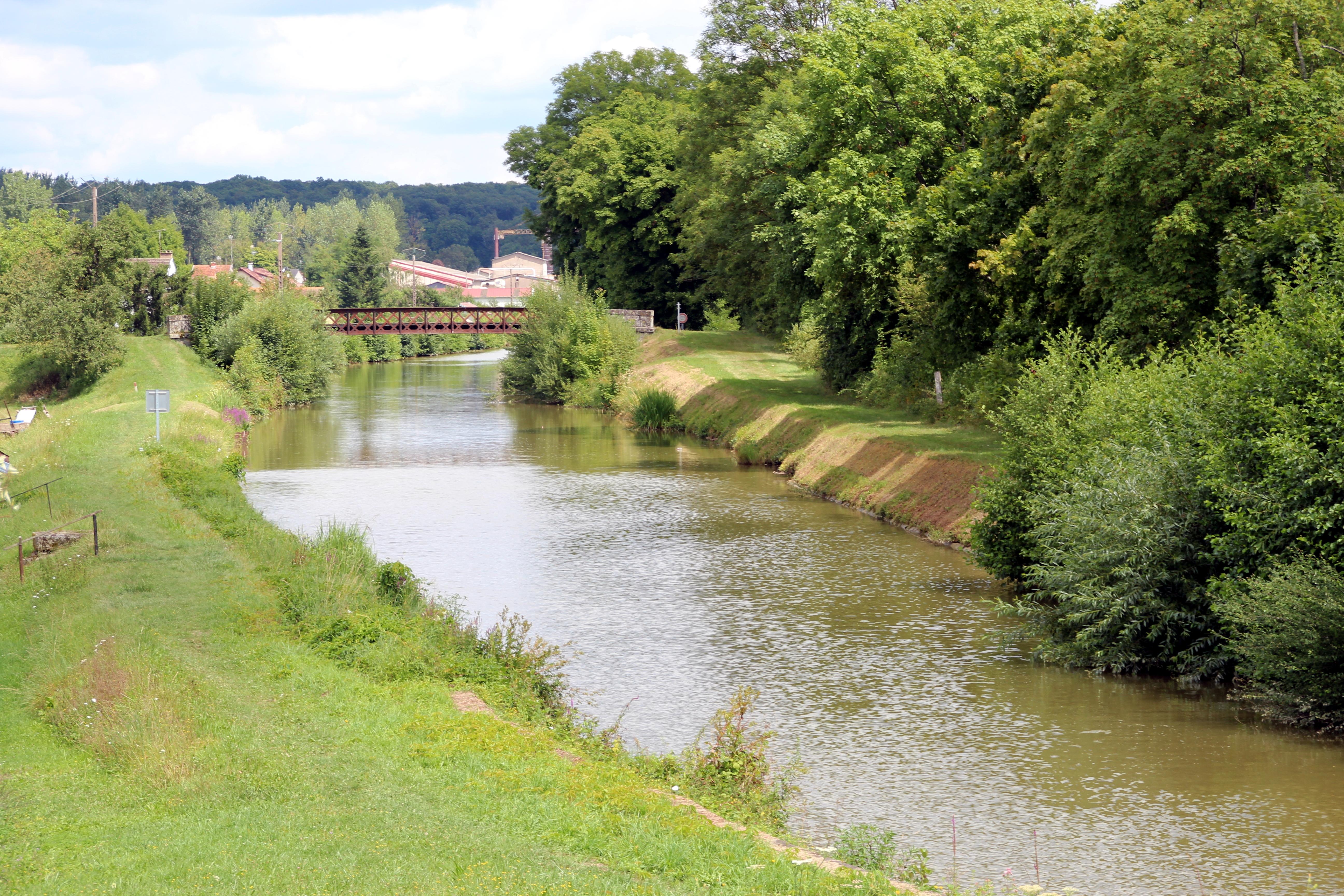 View of Corre, France.